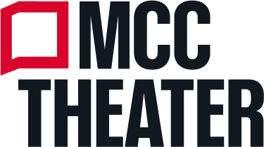 MCC Theater